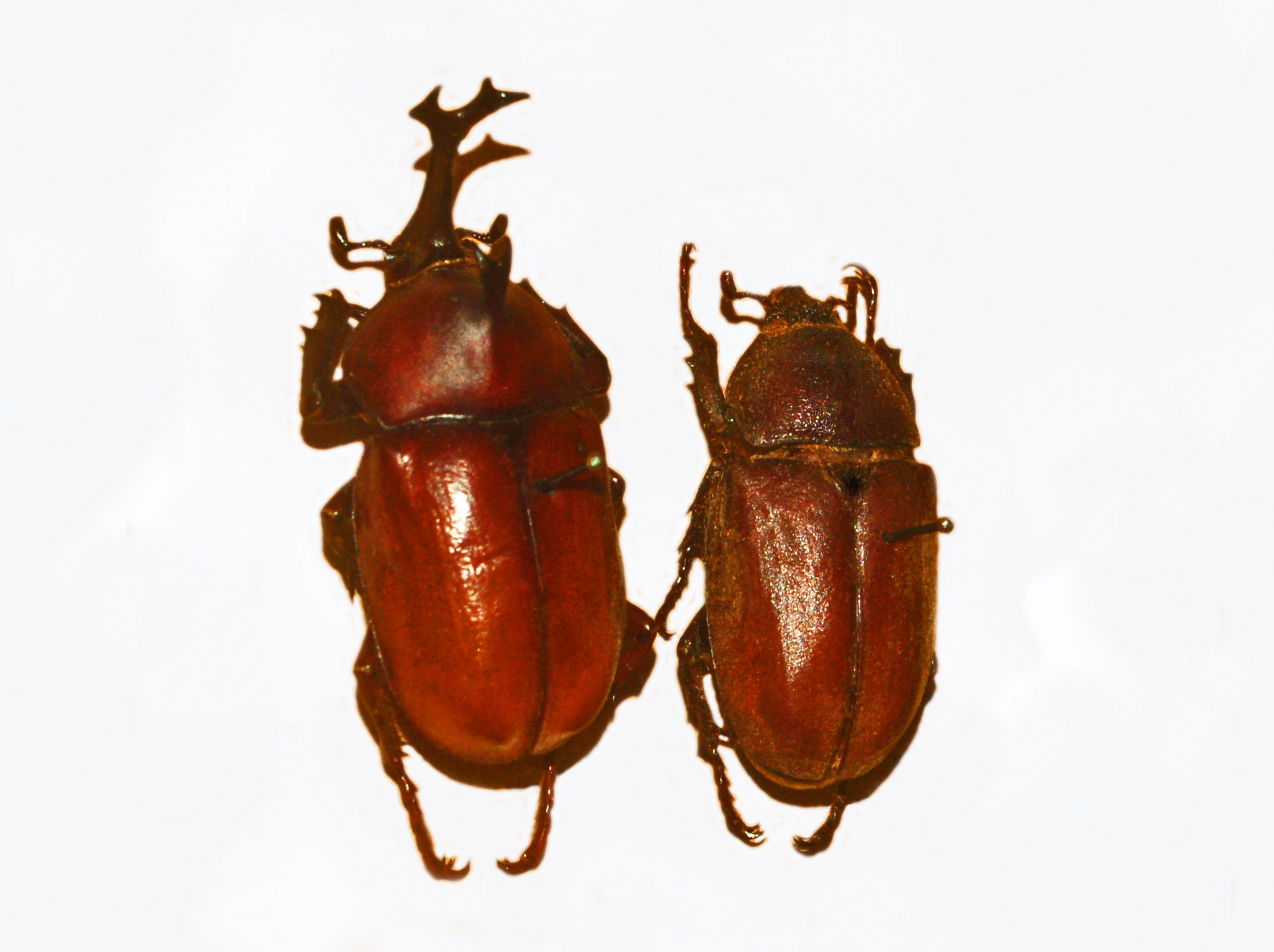 Allomyrina dichotoma, male and female. Mounted specimen